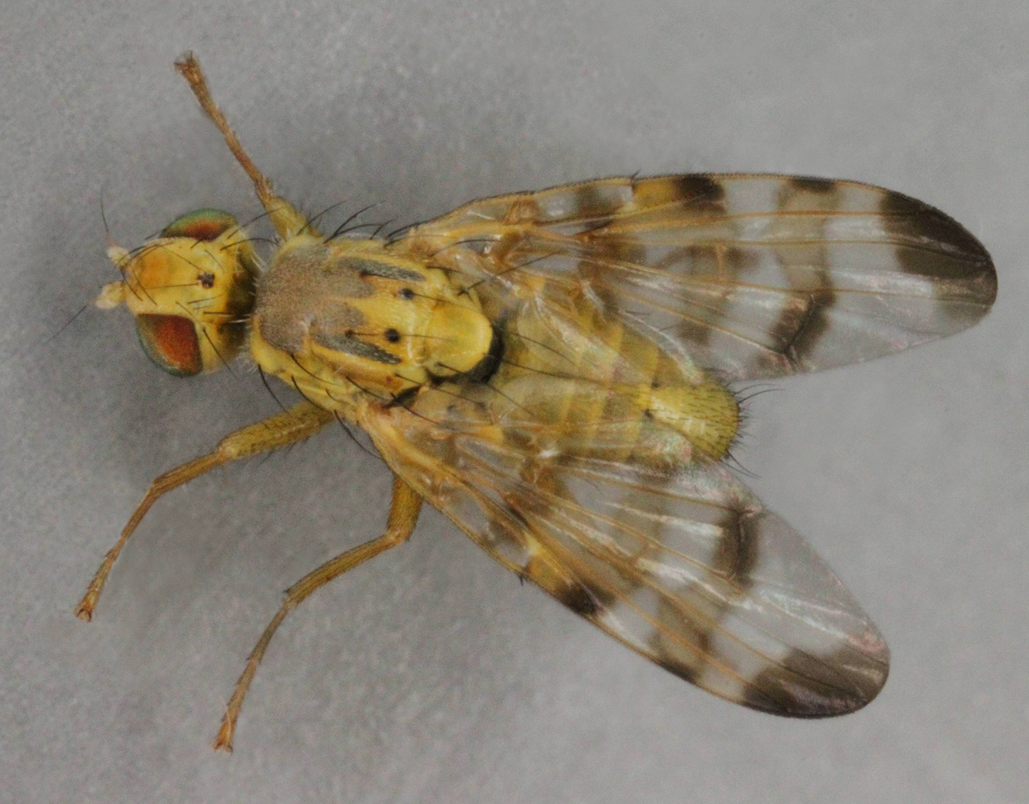 Terellia tussilaginis, Deeside, North Wales, July 2011 2